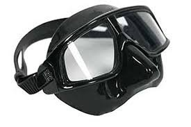 A twin-lens, low-volume diving mask, Aqua Lung (Technisub) Sphera, of the type favoured by many Underwater Hockey players.